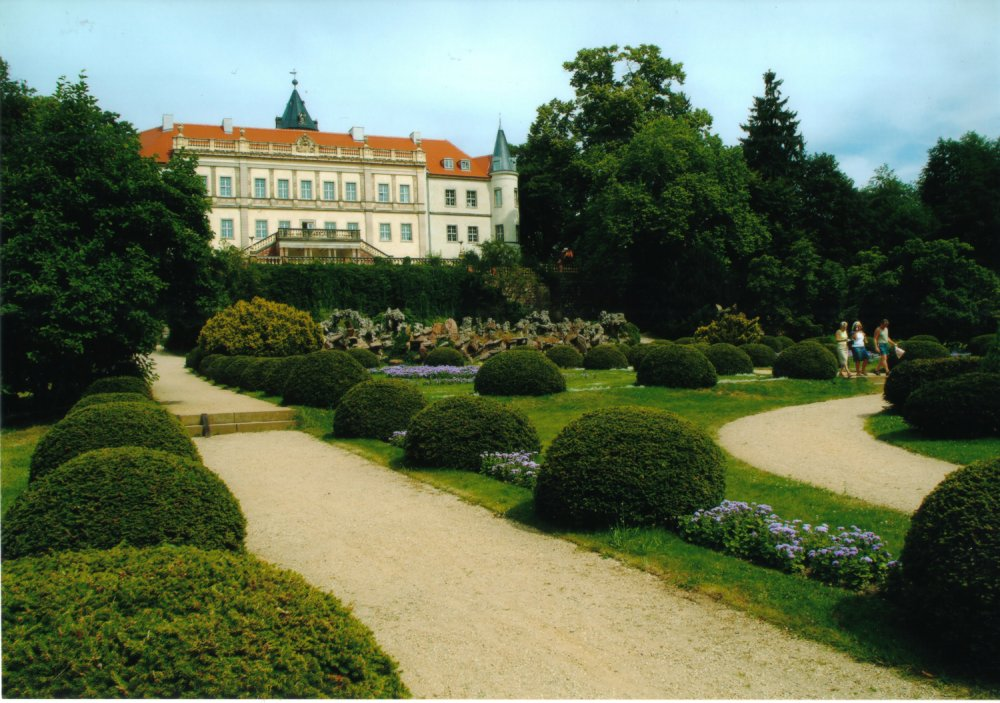 Wiesenburg Castle. Wiesenburg Castle is the main attraction in Wiesenburg/Mark